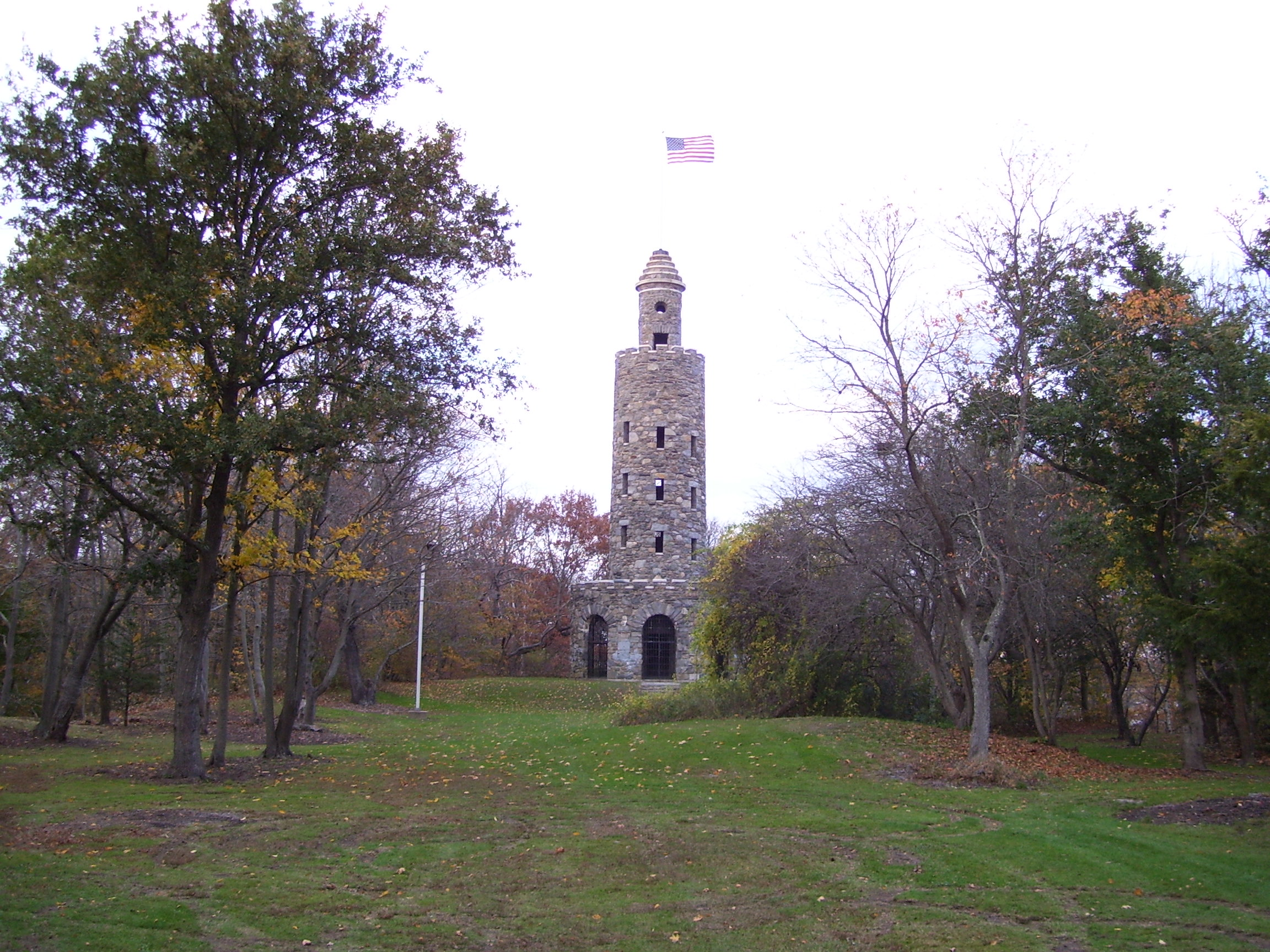 This is my 2008 photo of Miantonomi Memorial Park in Newport, Rhode Island.